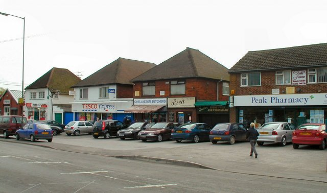 Shops at Chellaston, Derby